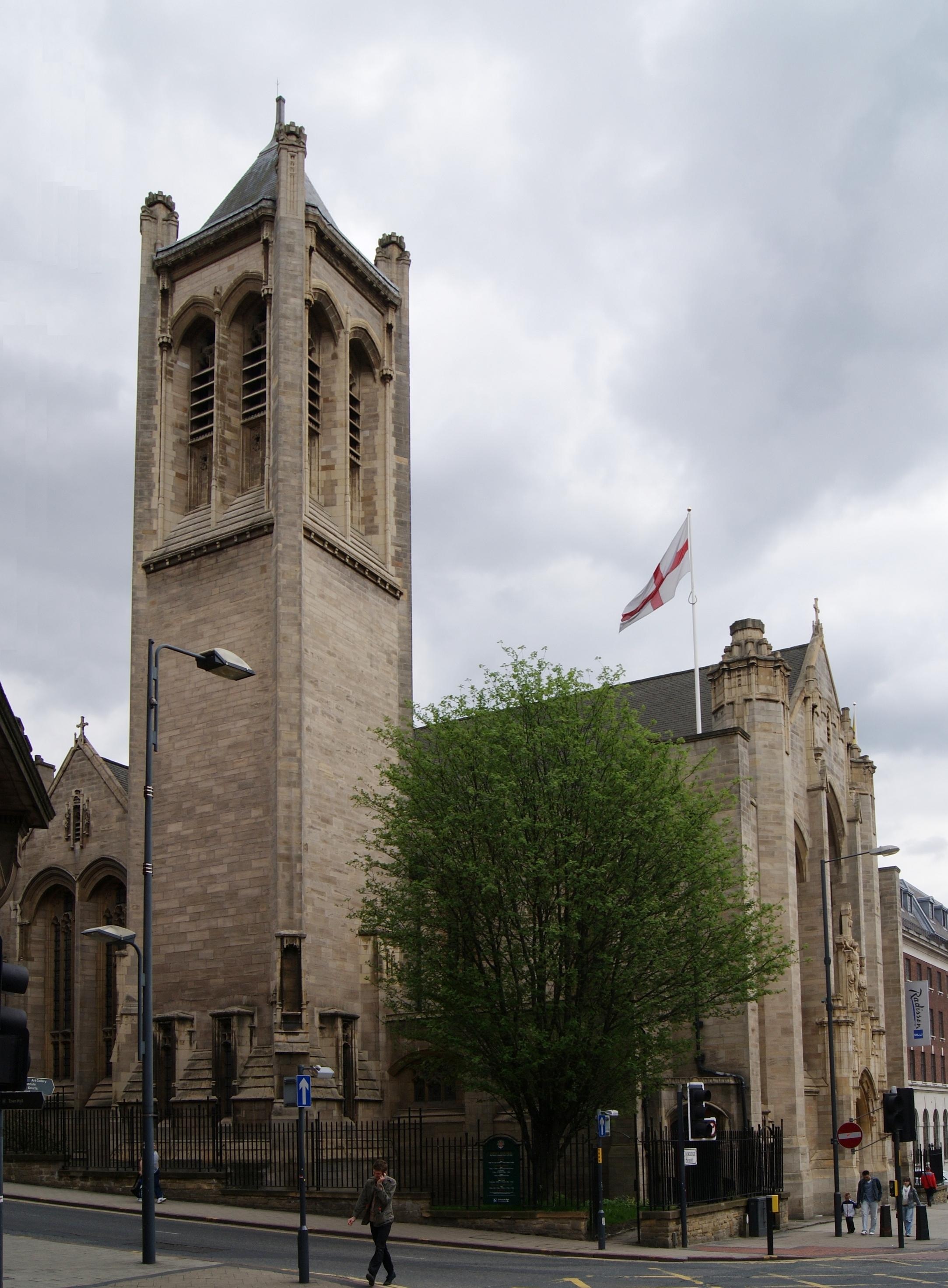 The tower and North West corner of St. Anne's Cathedral, Leeds, West Yorkshire. Taken on the afternoon of Tuesday the 4th May 2010.